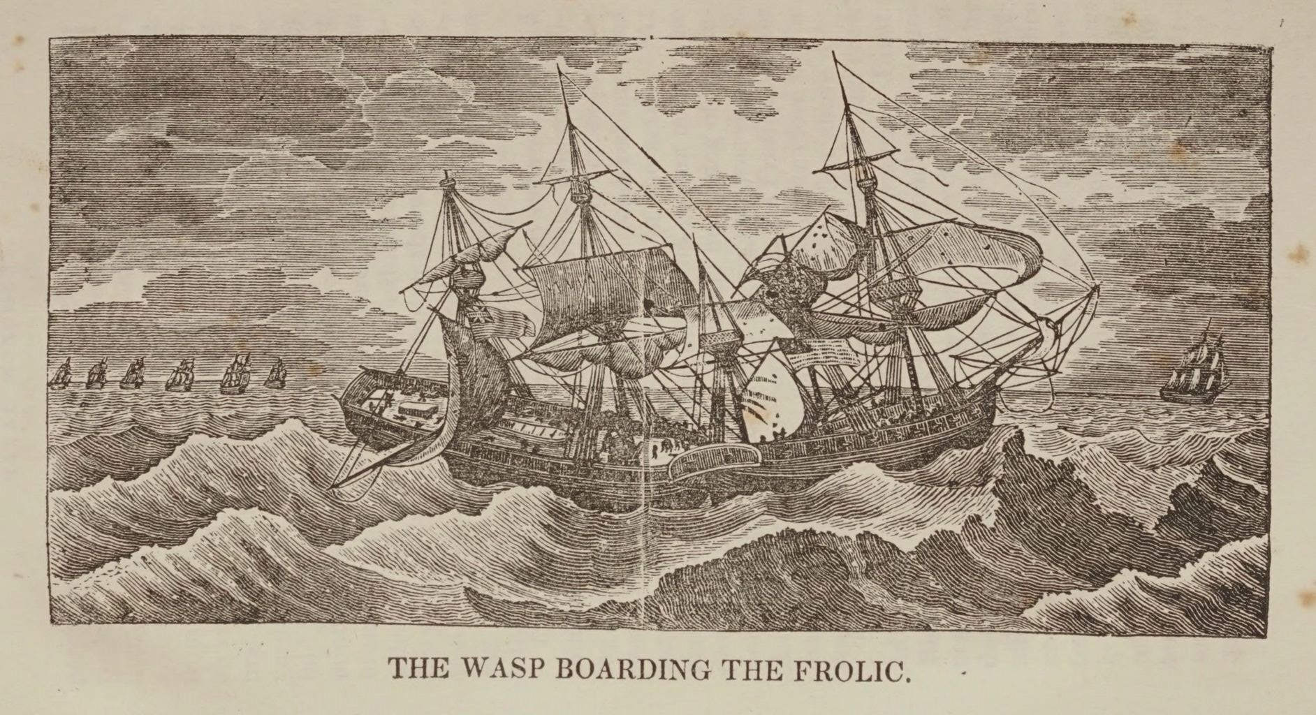 An engraving depicting USS Wasp boarding HMS Frolic. The illustration was published on page 13 of Abel Bowen's "The Naval Monument, Containing Official and Other Accounts of All the Battles Fought Between the Navies of the United States and Great Britain During the Late War," 1836.